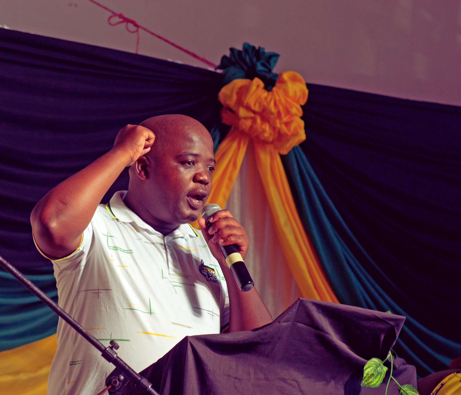 Harry Gwala Centenary Lecture by the ANCYL KZN, Gizenga Mpanza Region. Thanduxolo Sabela was the keynote speaker presenting the lecture on the life and times of Harry Gwala as part of his centenary celebration. The event was an ANCYL organised event.